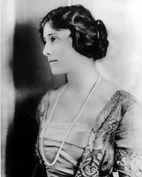 Mary Harriman profile